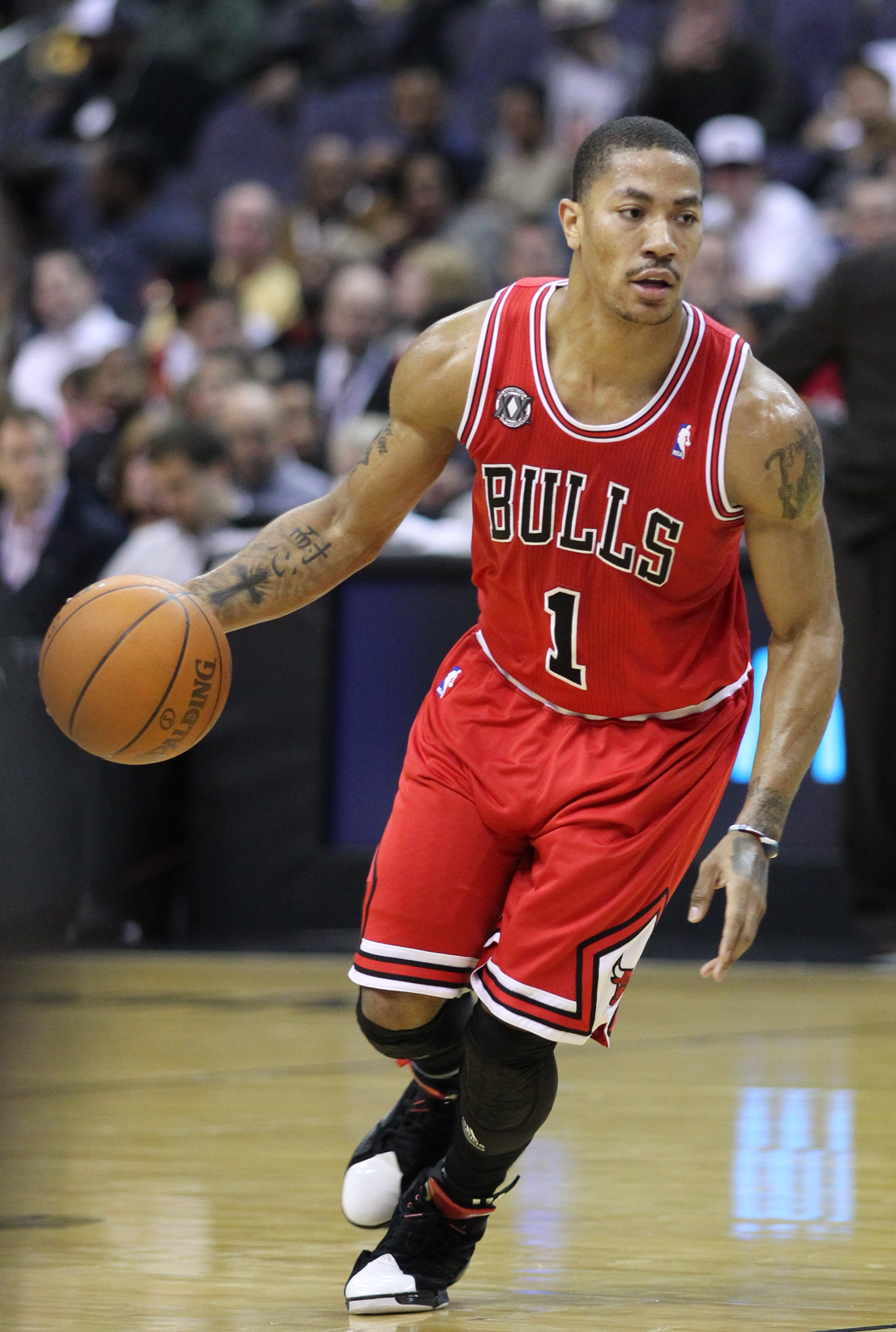 Derrick Rose #1 of the Chicago Bulls at the Verizon Center on February 28, 2011 in Washington, DC.